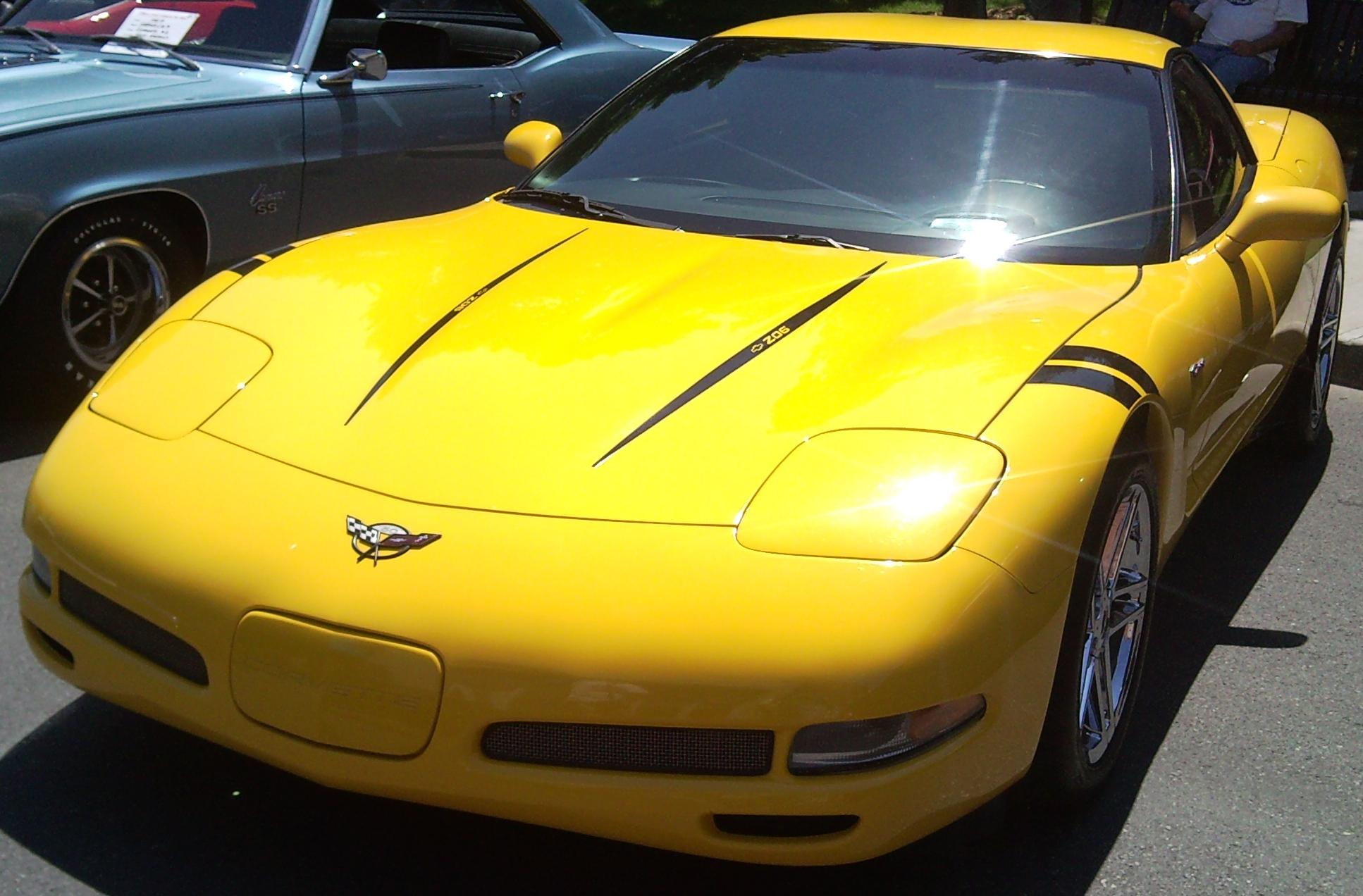 Chevrolet Corvette photographed in St. Lambert, Quebec, Canada at Auto classique VAQ St-Lambert 2012.